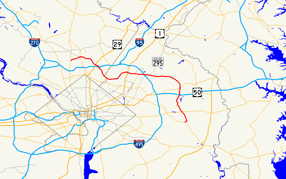 Map of Maryland Route 193